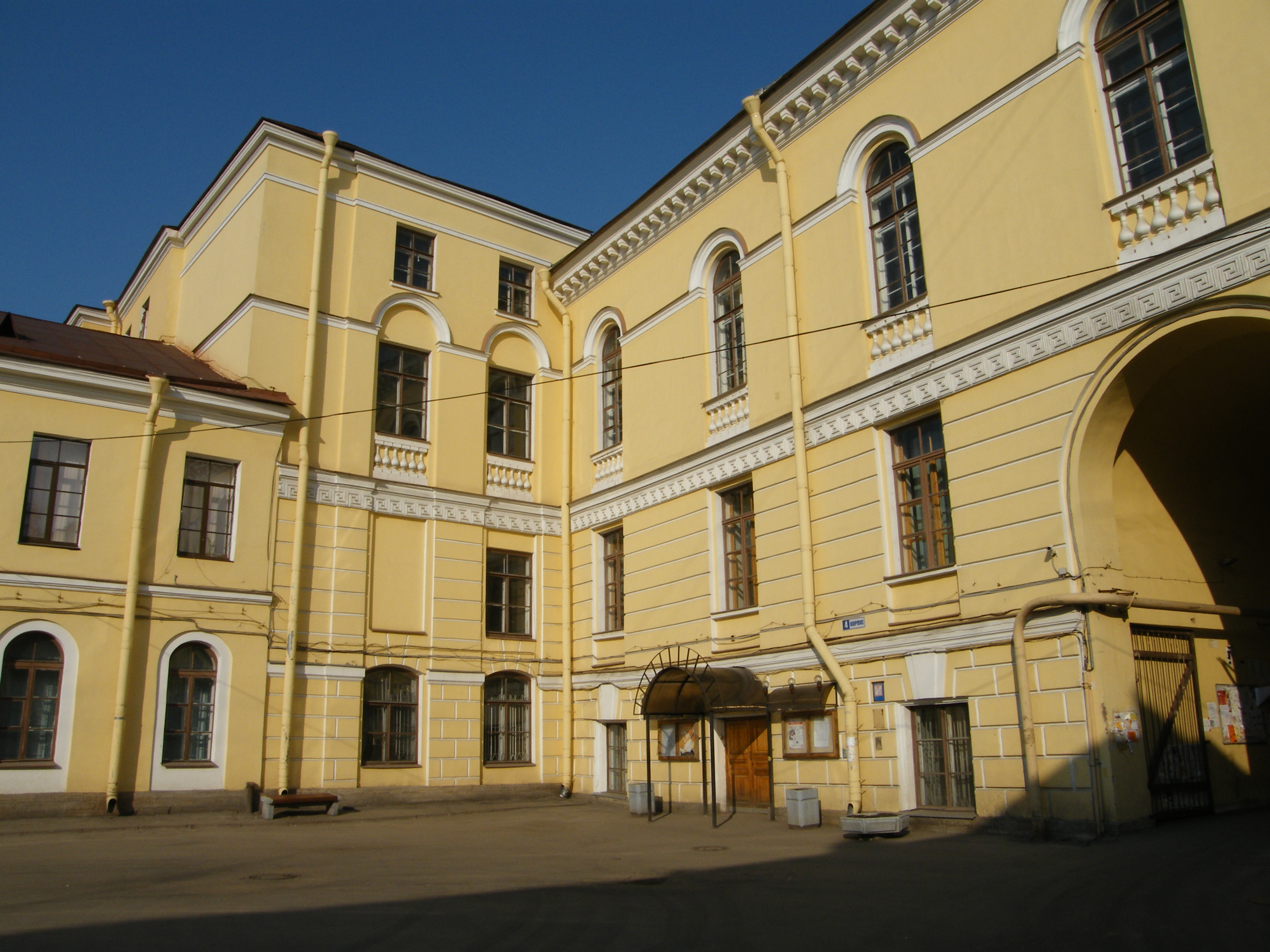 Saint Petersburg (Russia), Herzen University.